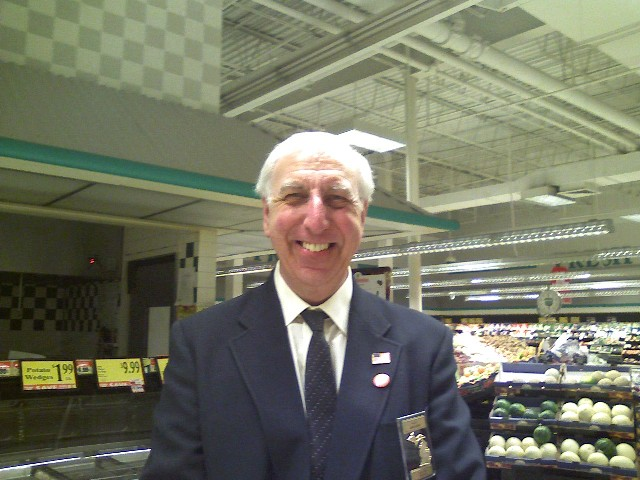 Mayor Jack Lloyd of Hazel Park, Michigan